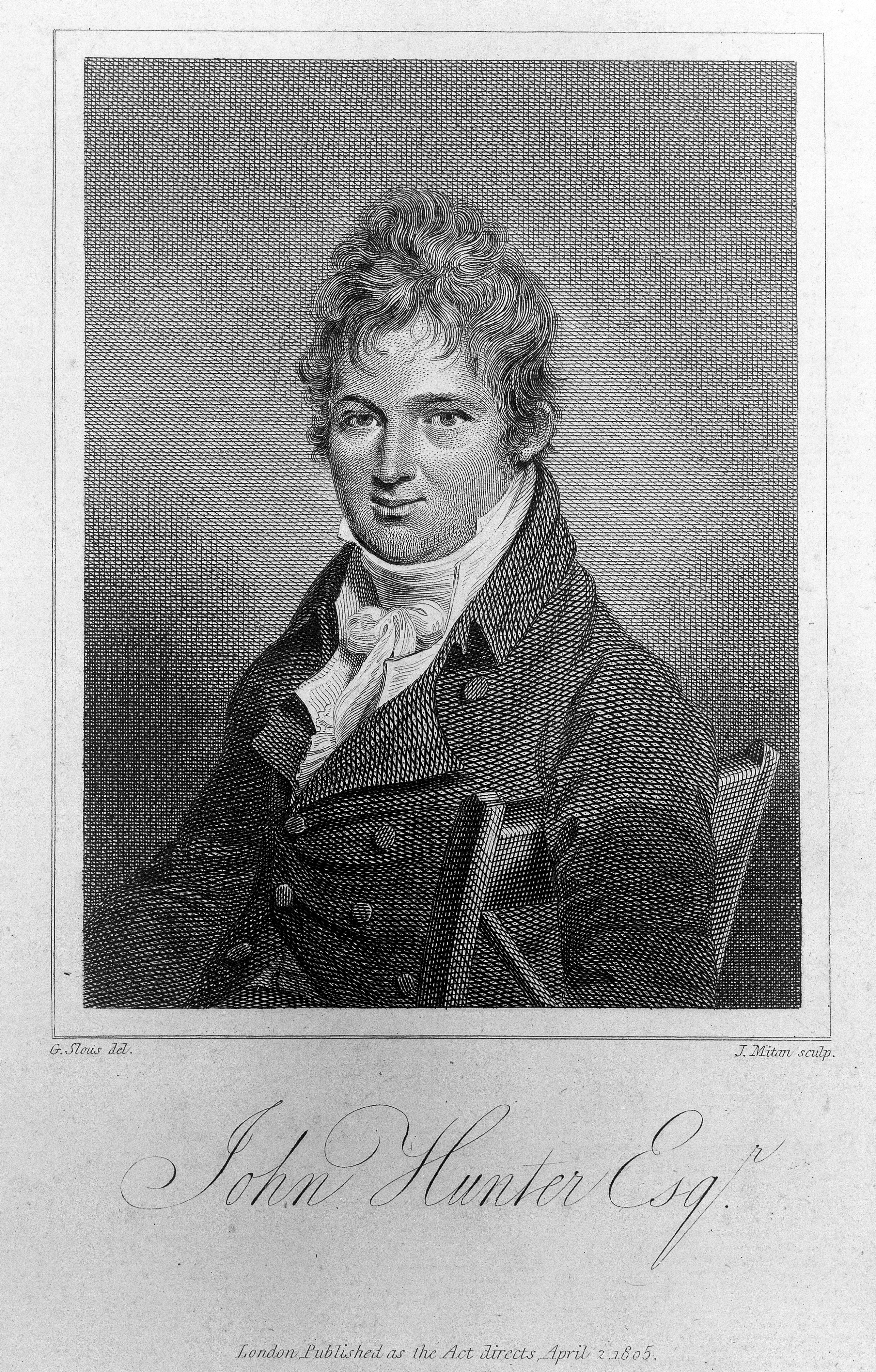 John Hunter. Stipple engraving by J. Mitan, 1805, after G. Slous. Iconographic Collections Keywords: John Hunter; J Mitan